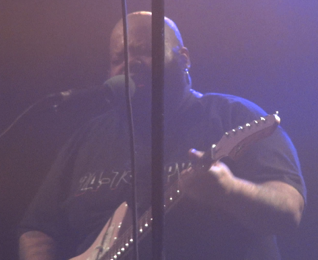 Jimi Hazel at the Million Man Mosh, January 4 2012